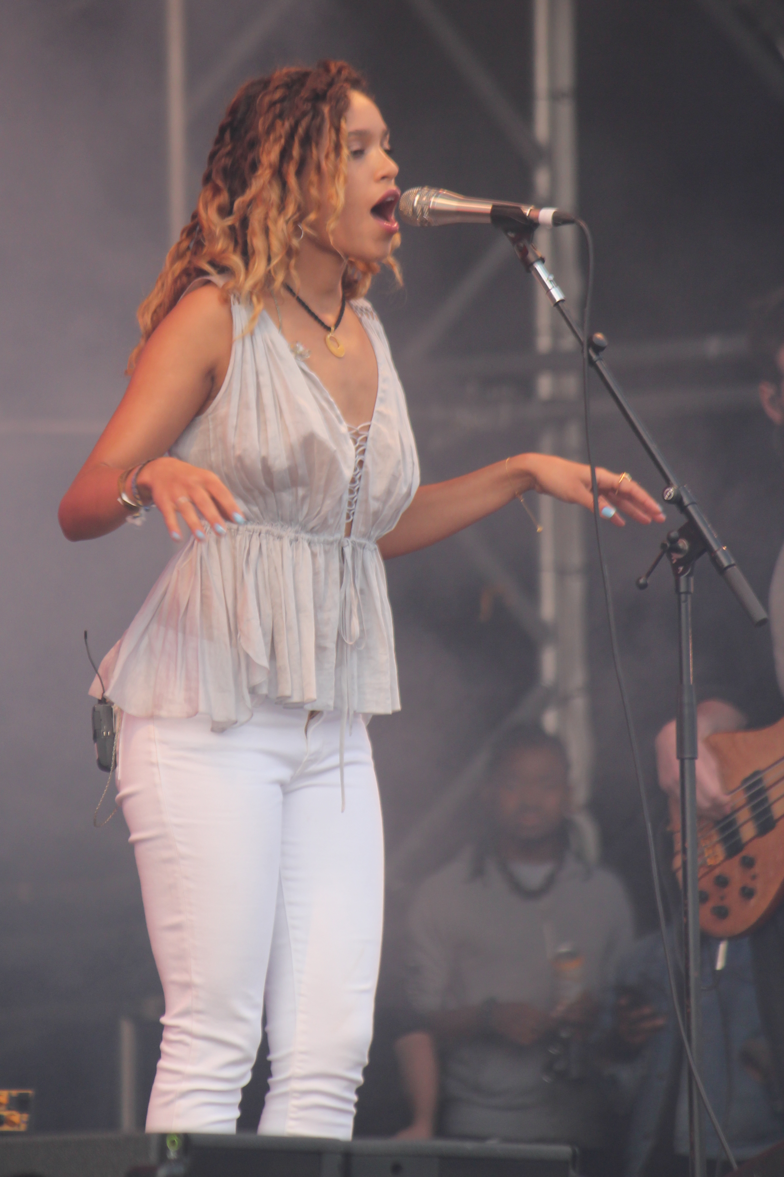 London vocalist Izzy Bizu performing at the Victorious Festival, Portsmouth, 2016.